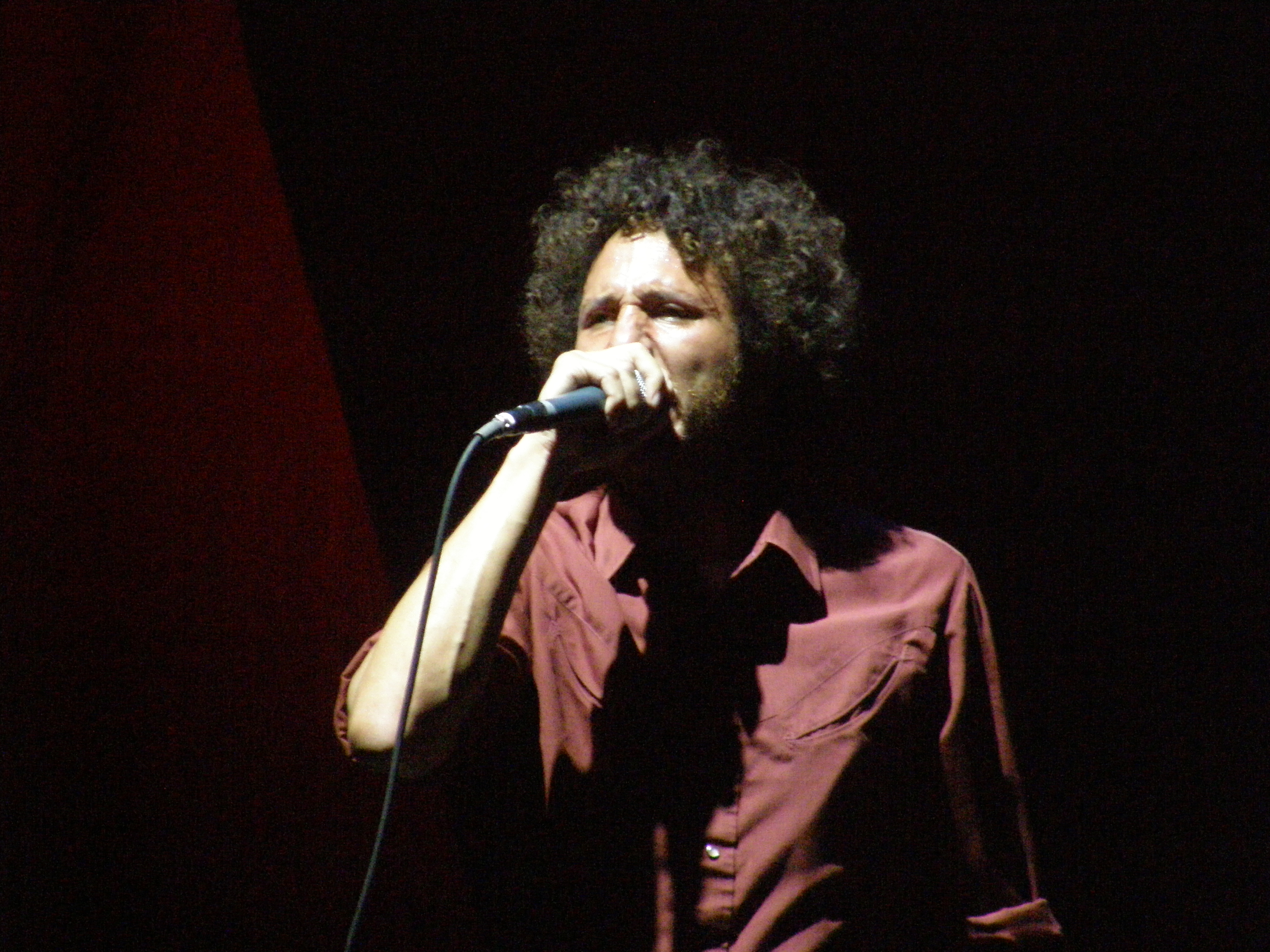 Rage Against The Machine plaing at Vegoose festival, Sam Boyd Stadium, 2007.